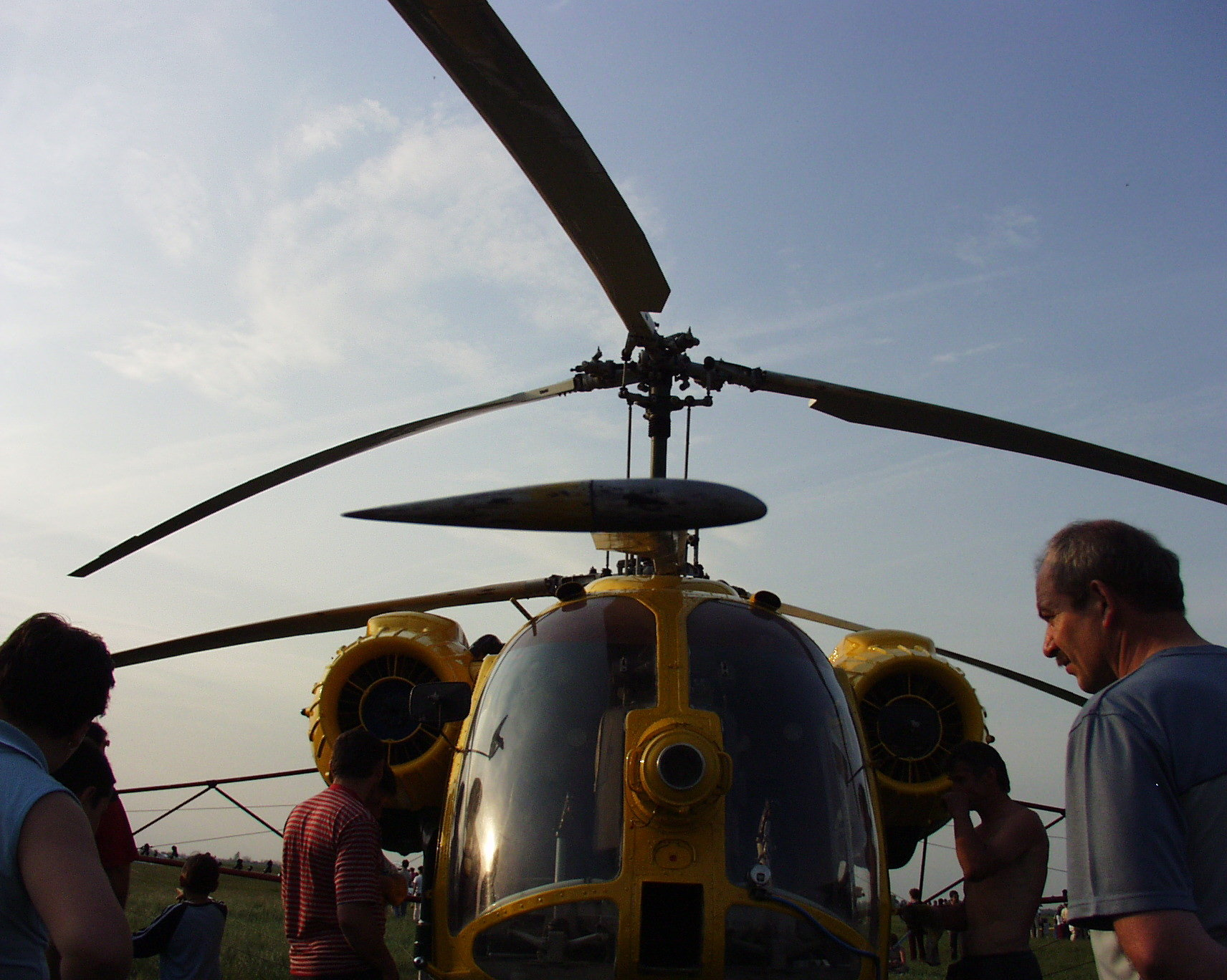 Cross-sectional view of rotor an helicopter (2.)